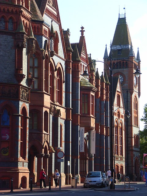 The Town Hall, Reading, England. The view up Blagrave Street from the direction of the station. The town hall and municipal buildings show off Victorian Gothic architecture in red and grey brick with ornate terracotta decoration. The main part of the building including the clock tower is by architect Alfred Waterhouse. This building now houses a museum and art gallery and a pub and hosts conferences and similar events. For more information see the Wikipedia article Reading Town Hall.